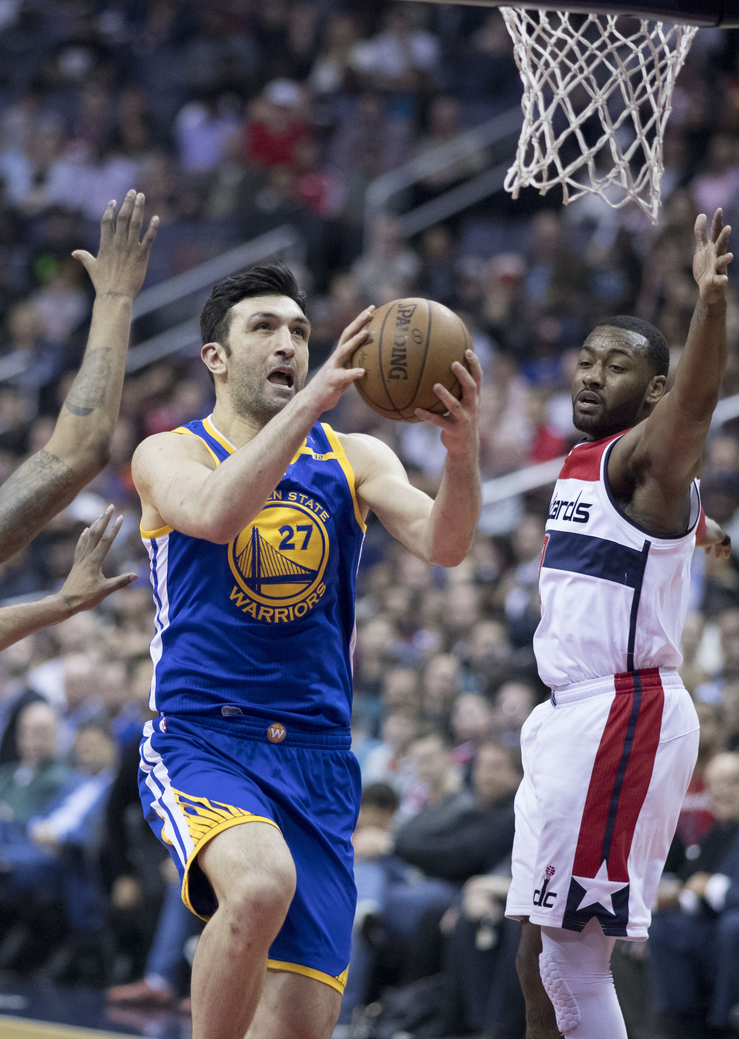 Zaza Pachulia of Golden State Warriors against the Washington Wizards